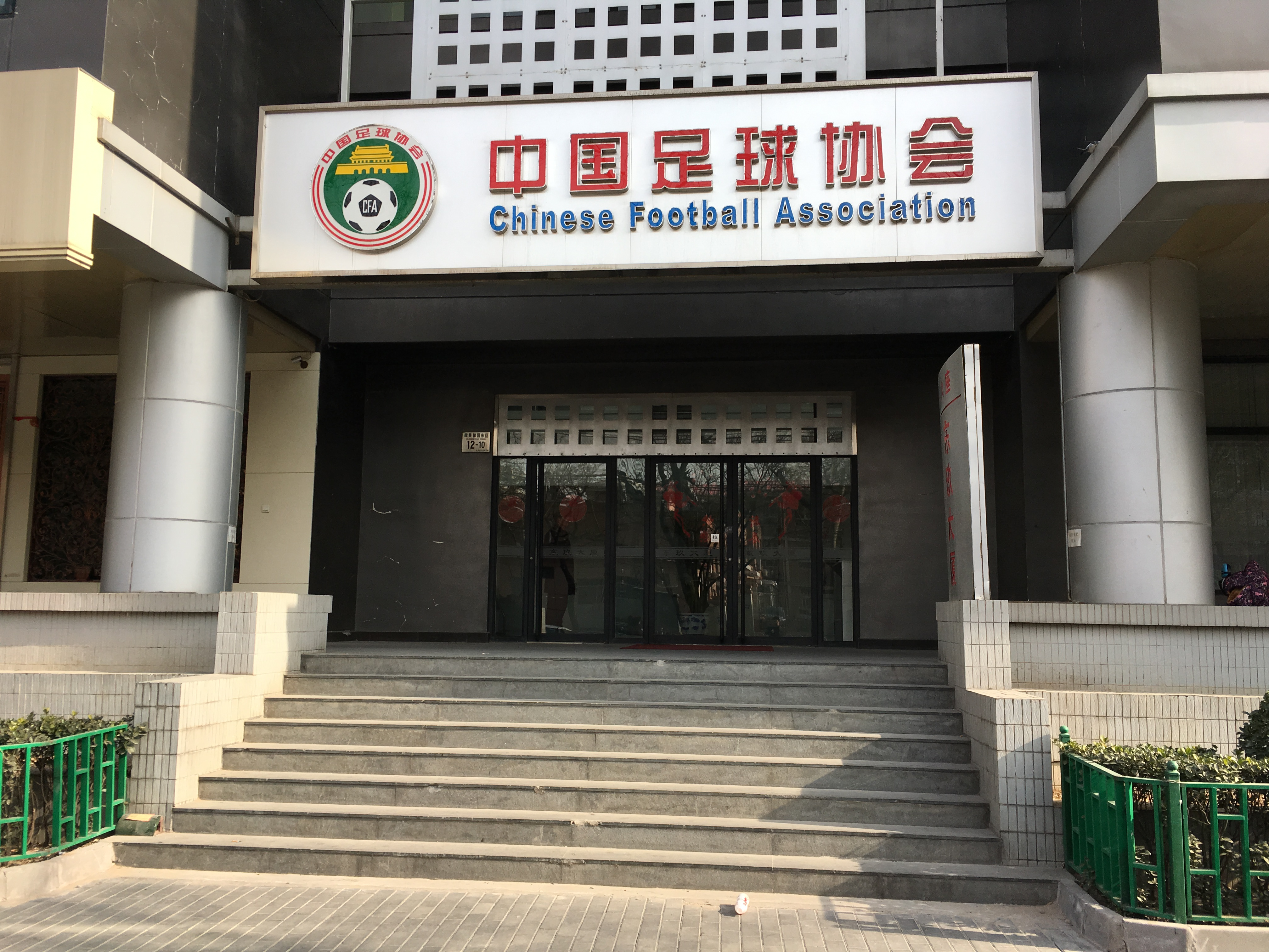 The headquarter of the Chinese Football Association (CFA) in Beijing, PR China